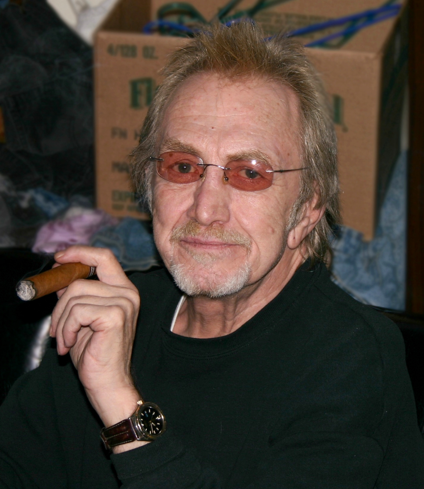 Cropped version of File:Dewey Martin.jpg